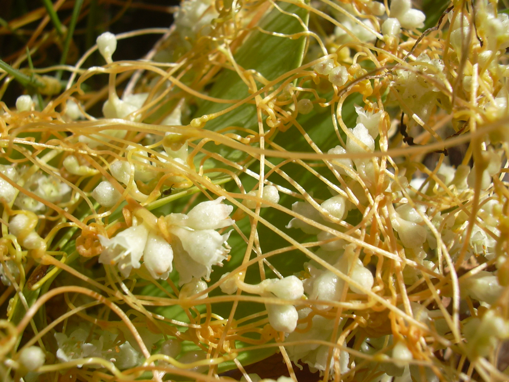 Cuscuta sandwichiana (flowers). Location: Maui, Kawililipoa